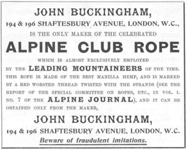 Advertisement for John Buckingham, rope-makers, which appeared in Whymper's Guides Advertiser in 1897.